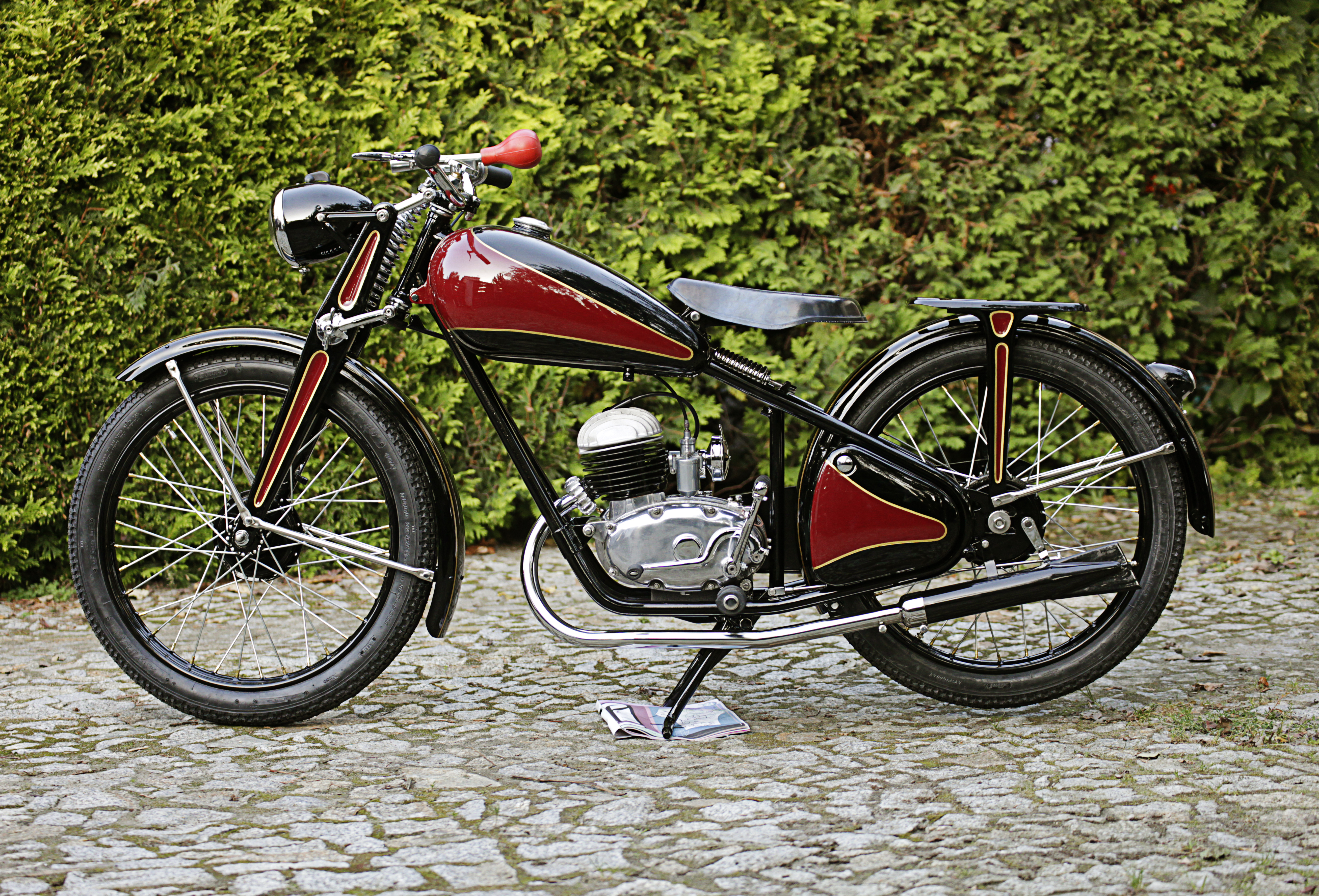 Csepel 125/49 - hungarian motorbike from 1949